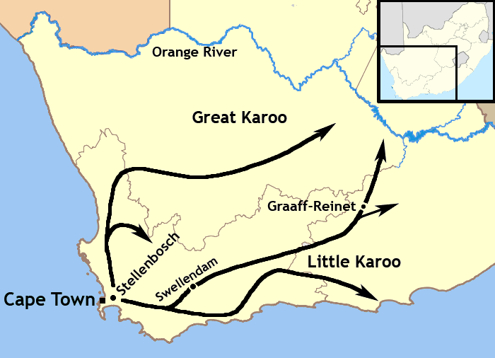 This map illustrates the migration pattern of the Trekboers in what is today South Africa between 1740 and 1800.